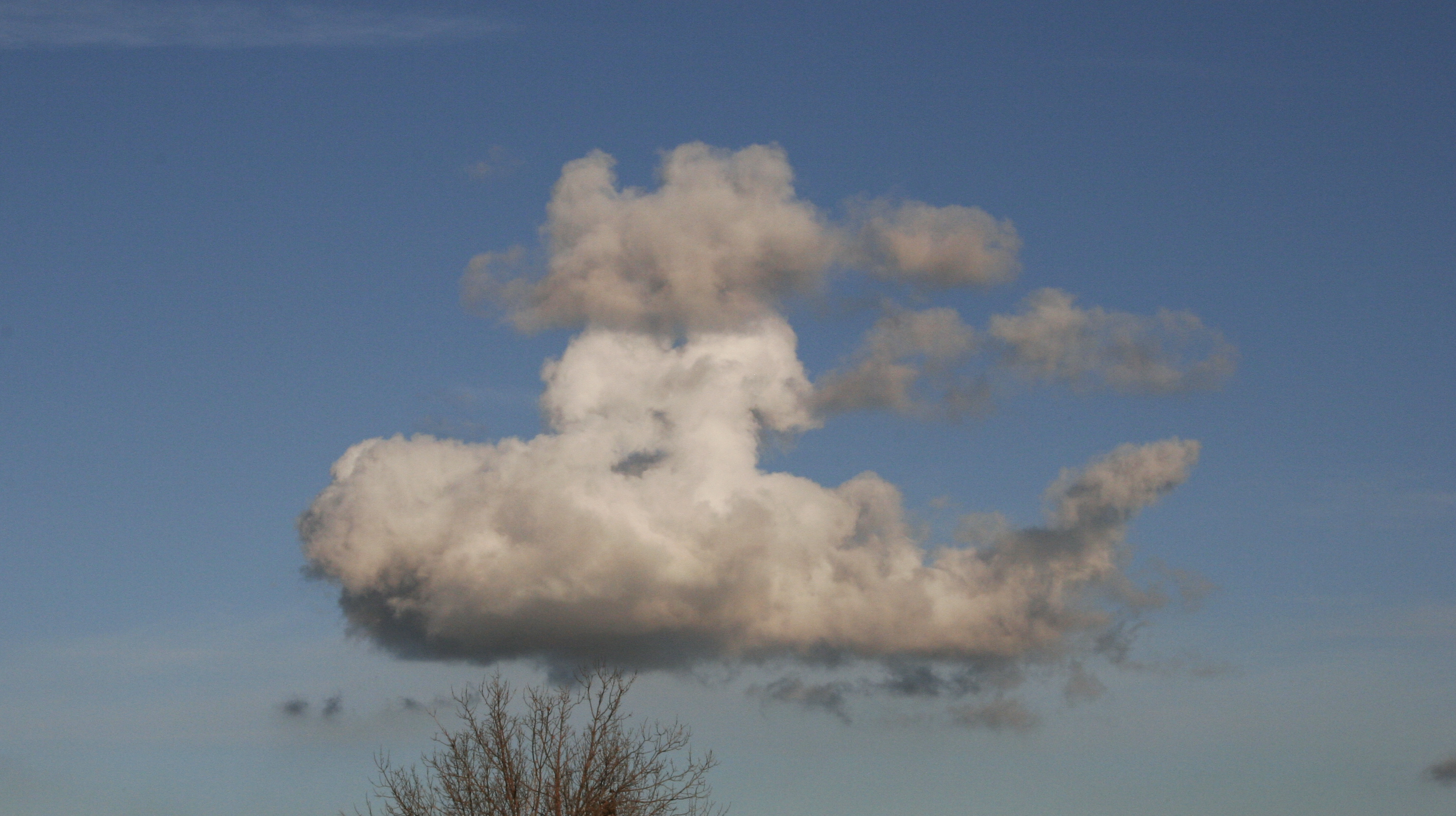 All on its own - an unusual shape to say the least!